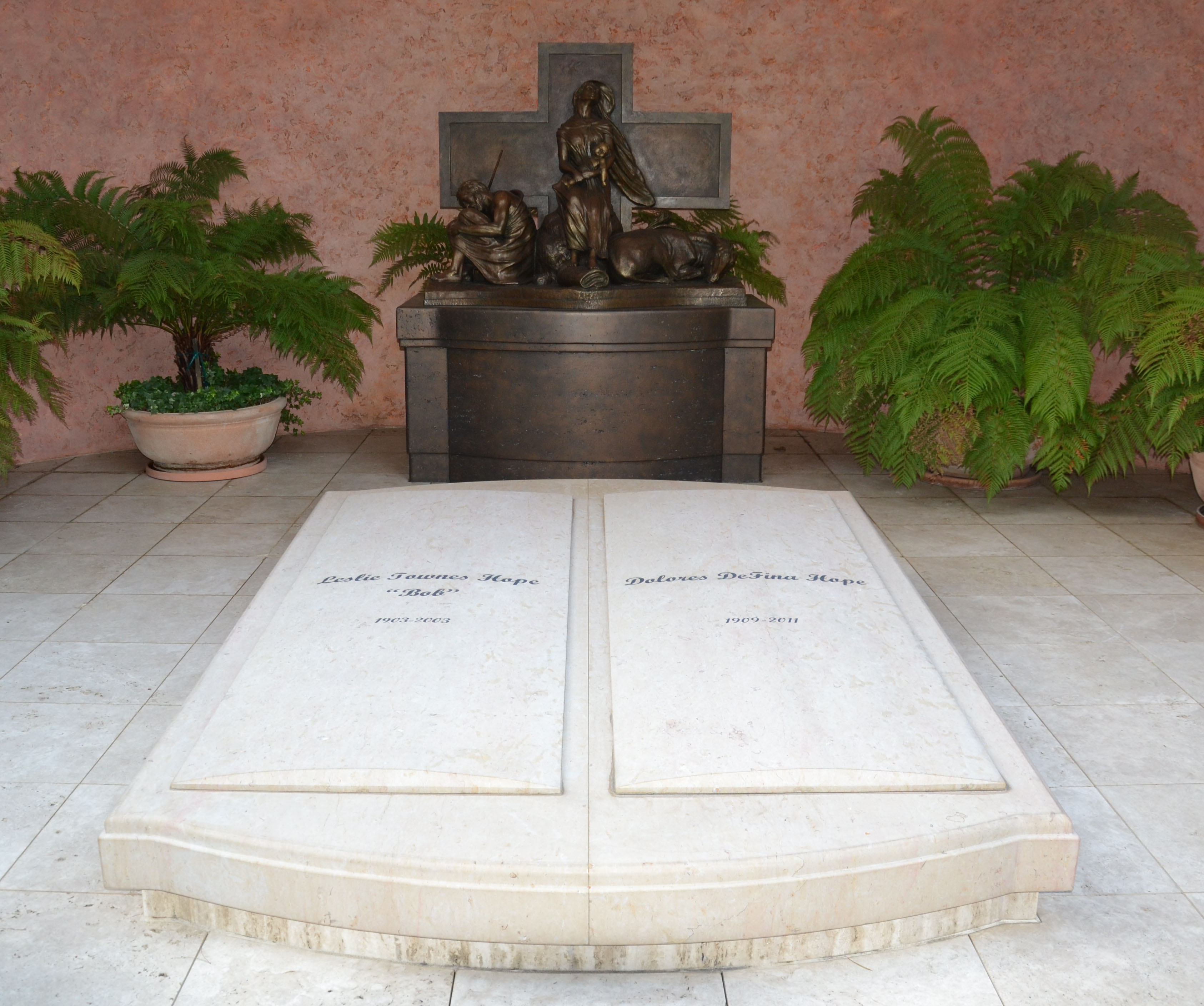 Bob Hope and Delores Hope graves at San Fernando Mission